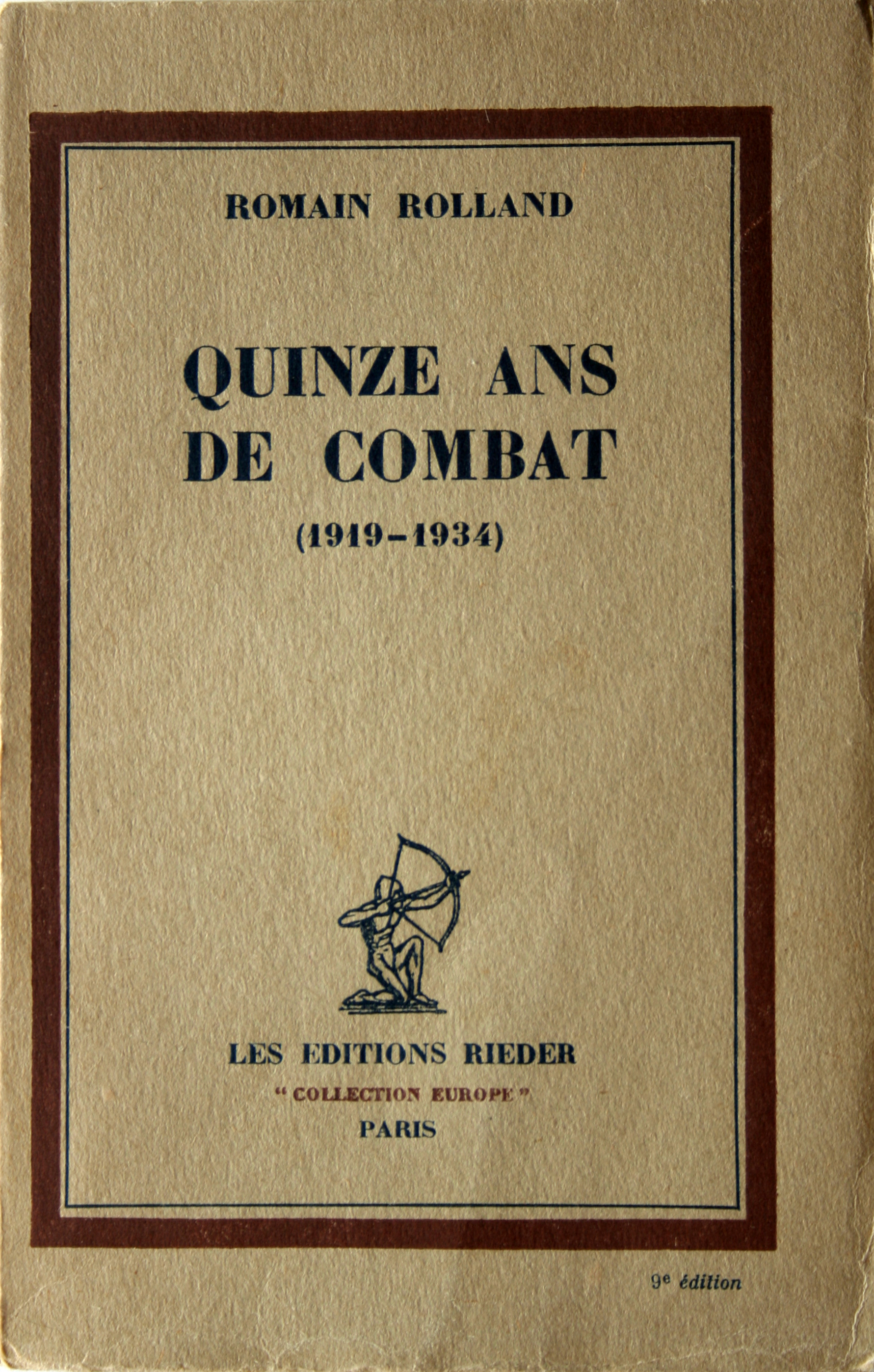 Romain Rolland, Quinze Ans de combat (1919-1934), book cover. Published by Rieder, Paris, 1935.